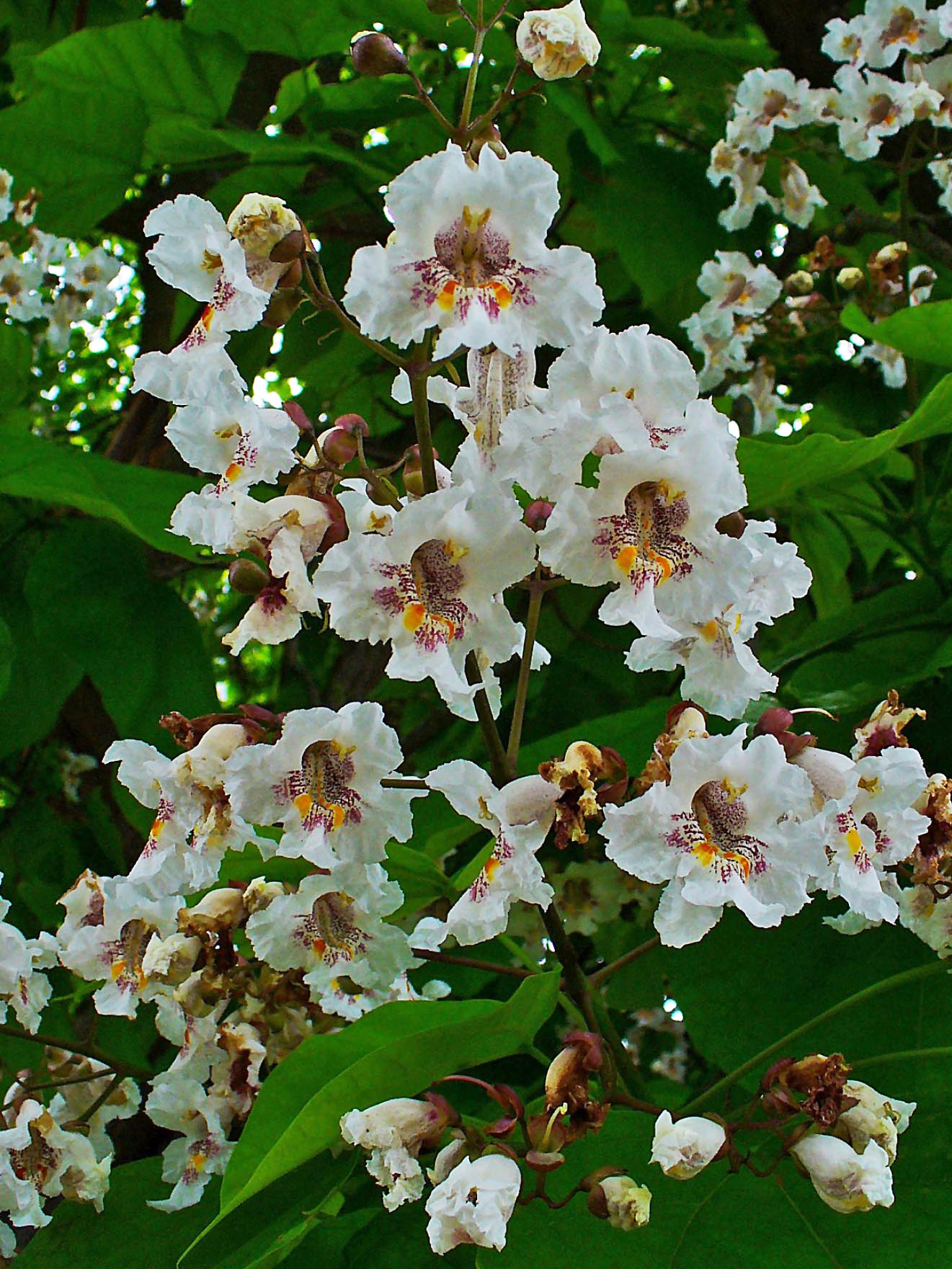 Catalpa bignonioides, Bignoniaceae, Southern Catalpa, Indian Bean Tree, flowers; Karlsruhe, Germany.